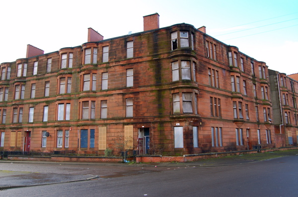 See where this picture was taken. [?]